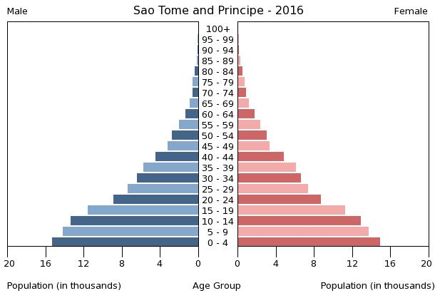 The population pyramid of Sao Tome and Principe illustrates the age and sex structure of population and may provide insights about political and social stability, as well as economic development. The population is distributed along the horizontal axis, with males shown on the left and females on the right. The male and female populations are broken down into 5-year age groups represented as horizontal bars along the vertical axis, with the youngest age groups at the bottom and the oldest at the top. The shape of the population pyramid gradually evolves over time based on fertility, mortality, and international migration trends.